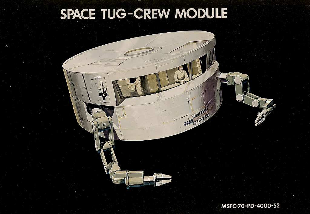 Space Tug Missions Managed by Marshall Space Flight Center, the Space Tug concept was intended to be a reusable multipurpose space vehicle designed to transport payloads to different orbital inclinations. Utilizing mission-specific combinations of its three primary modules (crew, propulsion, and cargo) and a variety of supplementary kits, the Space Tug was capable of numerous space applications. This 1970 artist's concept illustrates the crew module concept. The Space Tug program was cancelled and did not become a reality.